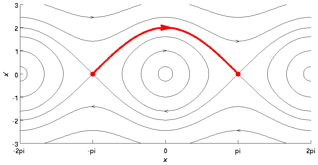 Phaseportrait for the pendulum equation with the heteroclinic orbit highlighted. Created by Jitse Niesen using Matlab.